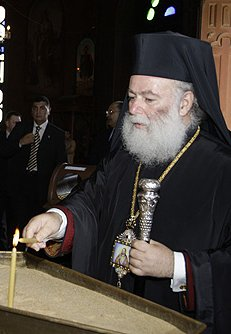 Theodore II, the Pope and Patriarch of Alexandria and all Africa (Greek Orthodox Church of Alexandria).